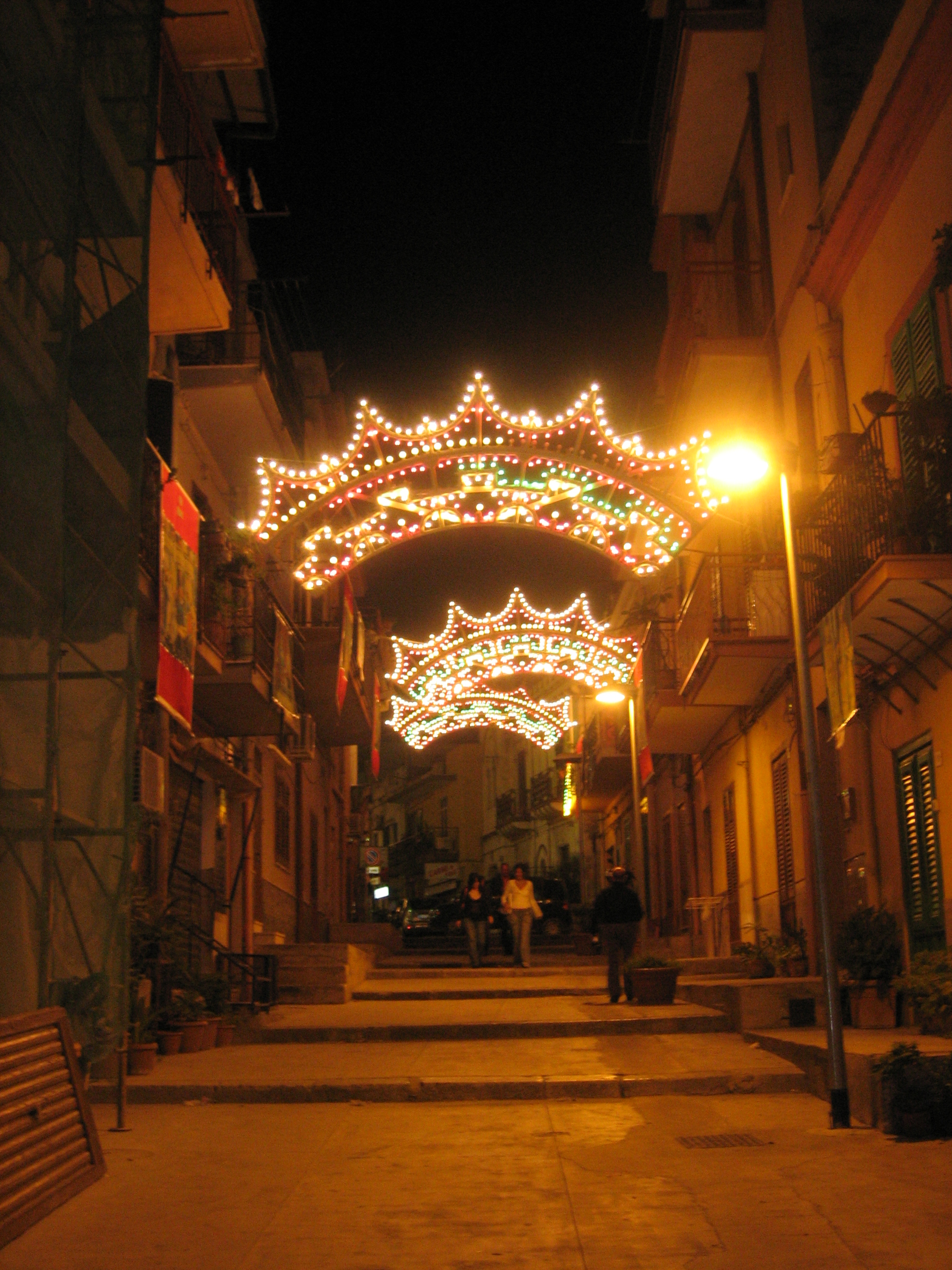 Light decoration for a religious fiest at Sferracavallo, Sicily.